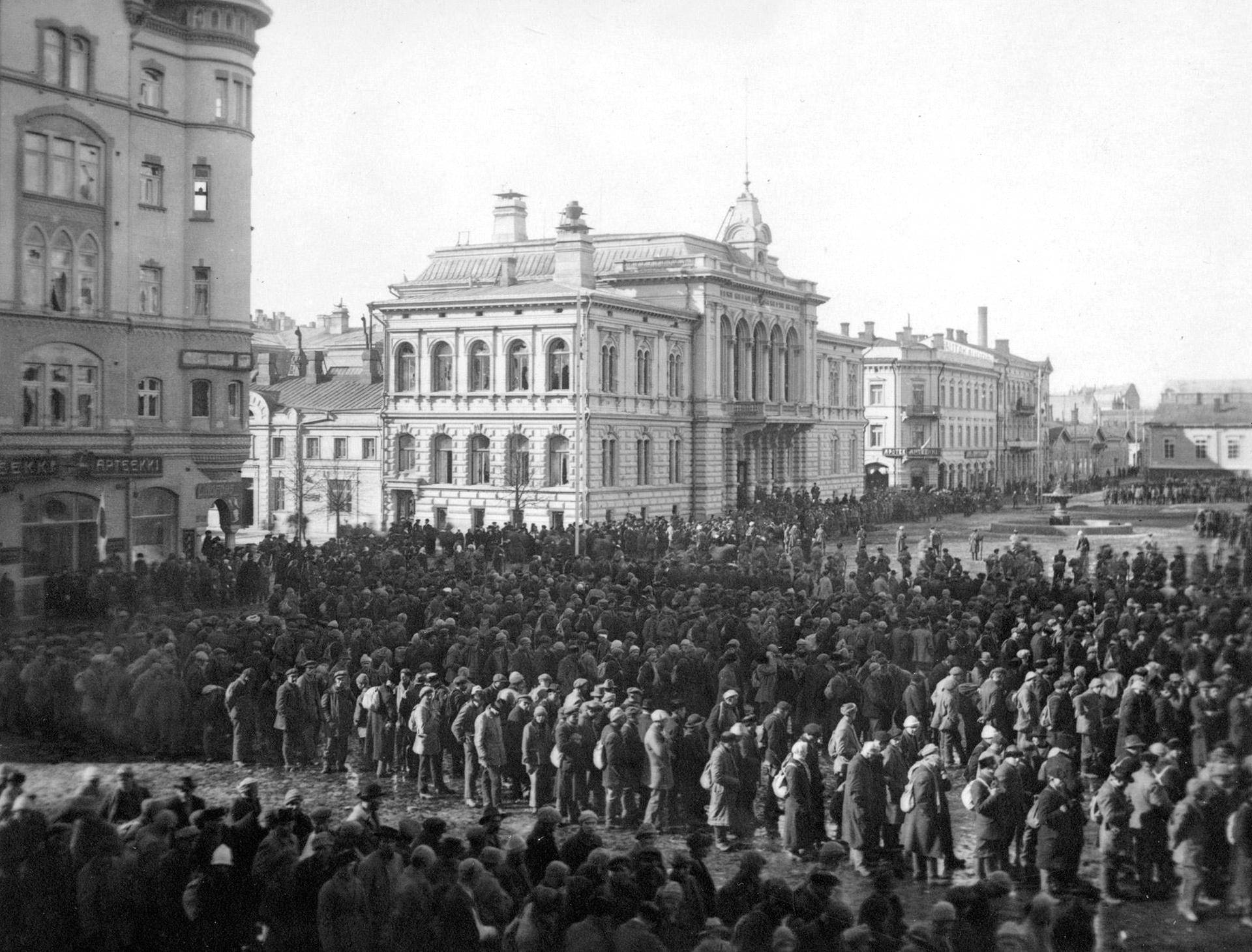 Red prisoners on the Central Square of Tampere in April 1918 after the White victory (see Finnish Civil War